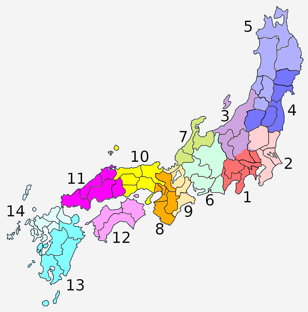 Accoding to The Six Regions Chindai Table on April 7, 1875.. Аҧсшәа: 明治8年4月7日改正の「六管鎮台表」による。